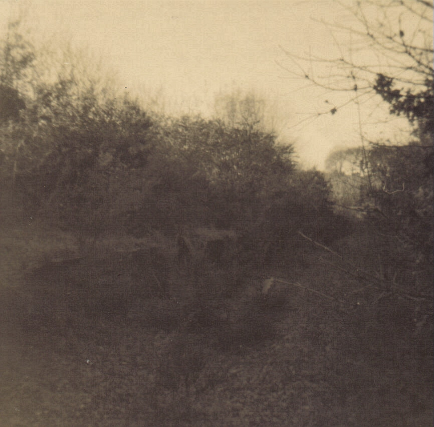 Pullabrook Halt - formerly Hawkmoor Halt, South Devon, England.